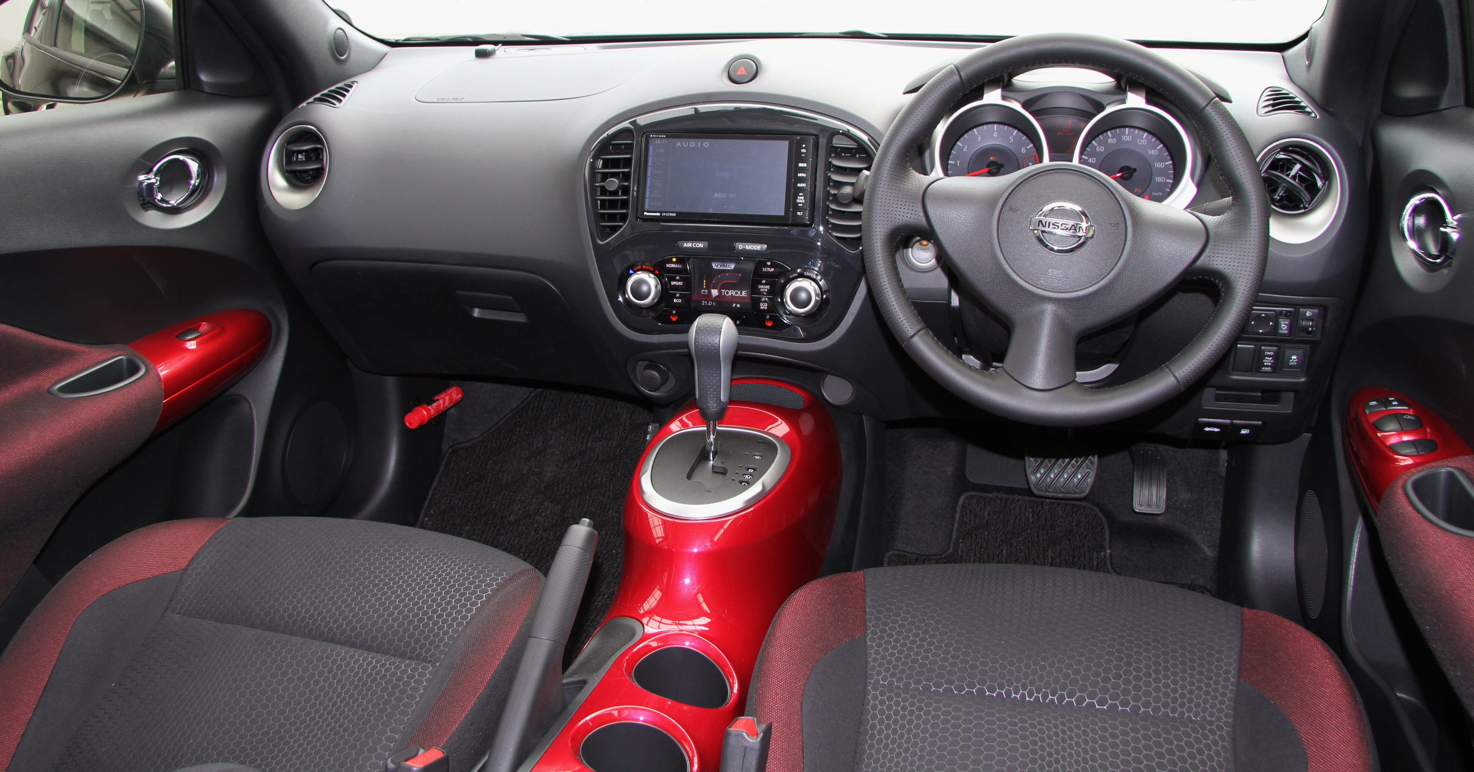 Nissan Juke